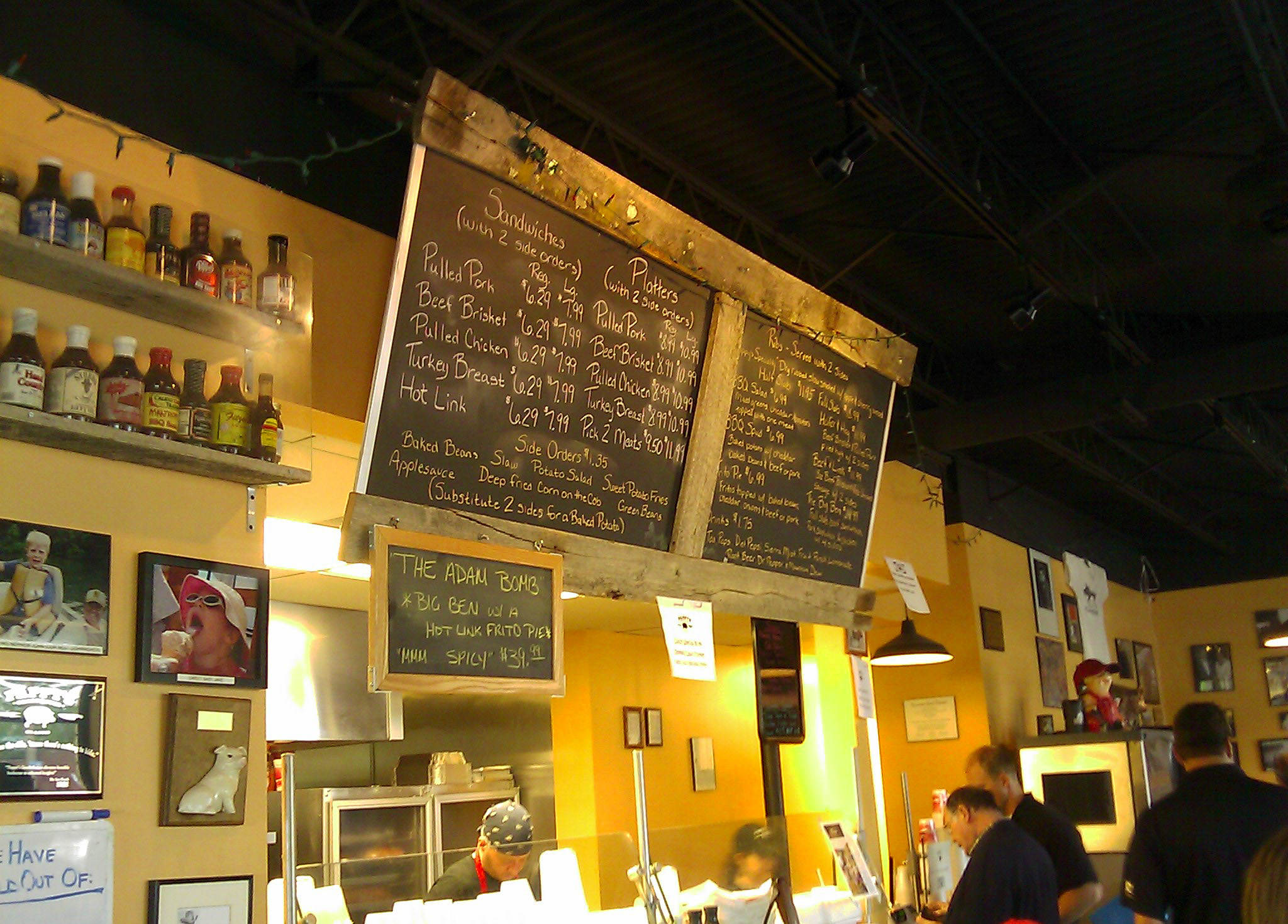 Pappy's BBQ Menu. Menu featuring the Adam Bomb from Man vs. Food.